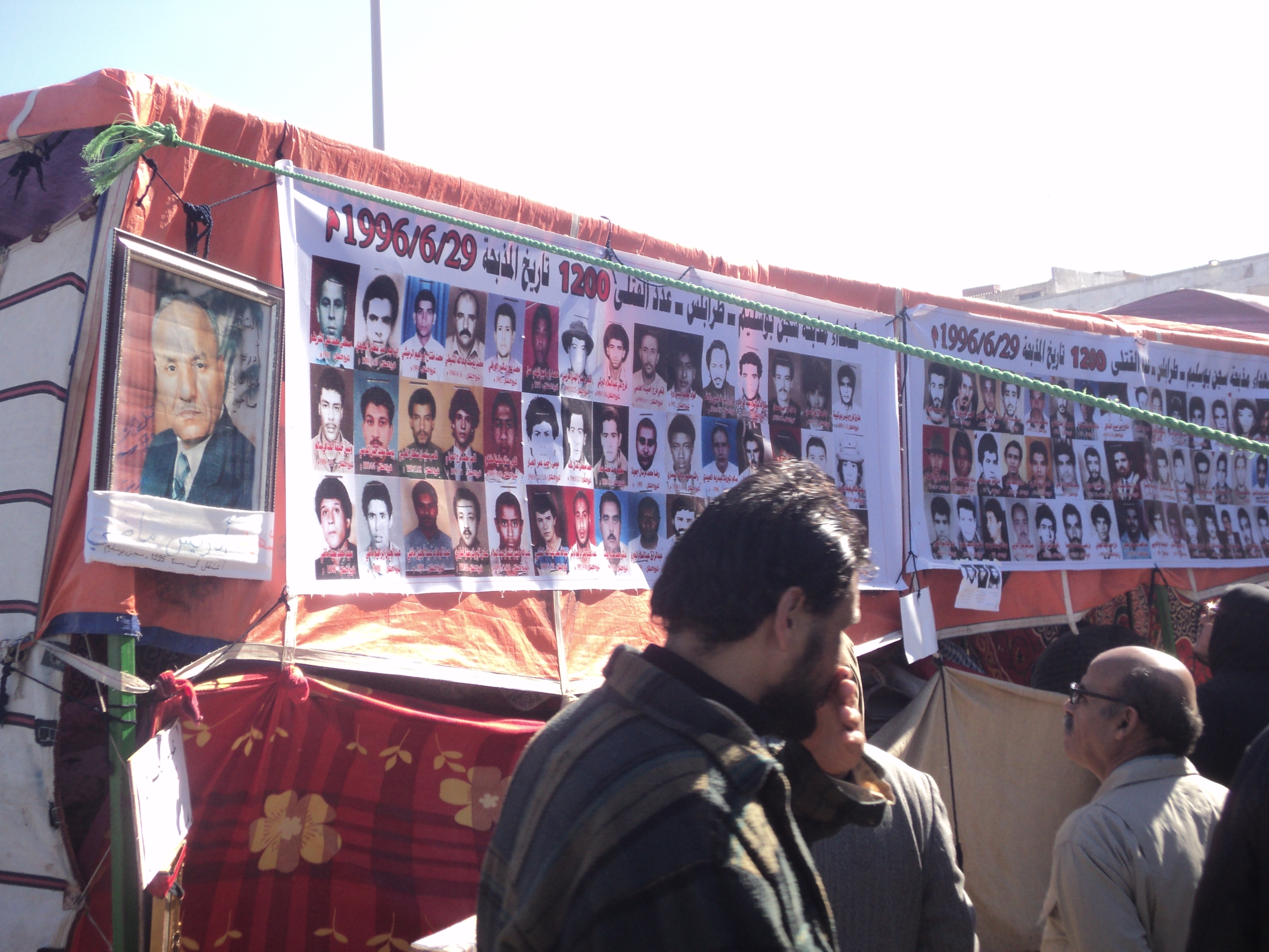 People at a Benghazi rally watching the photos of victims of Abu Sleem massacre (occured in 1996).